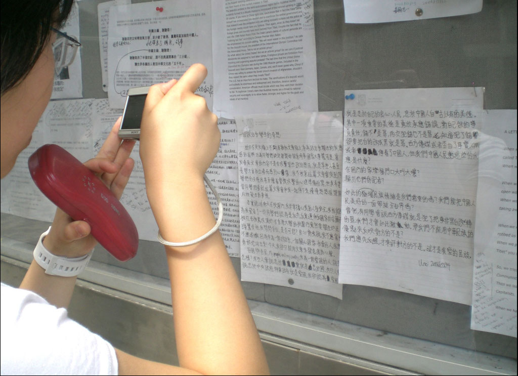 Description= 香港大學民主牆 Photo self-made by Author M51H